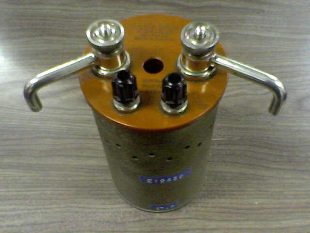 A shunt resistor built into a jar-style enclosure